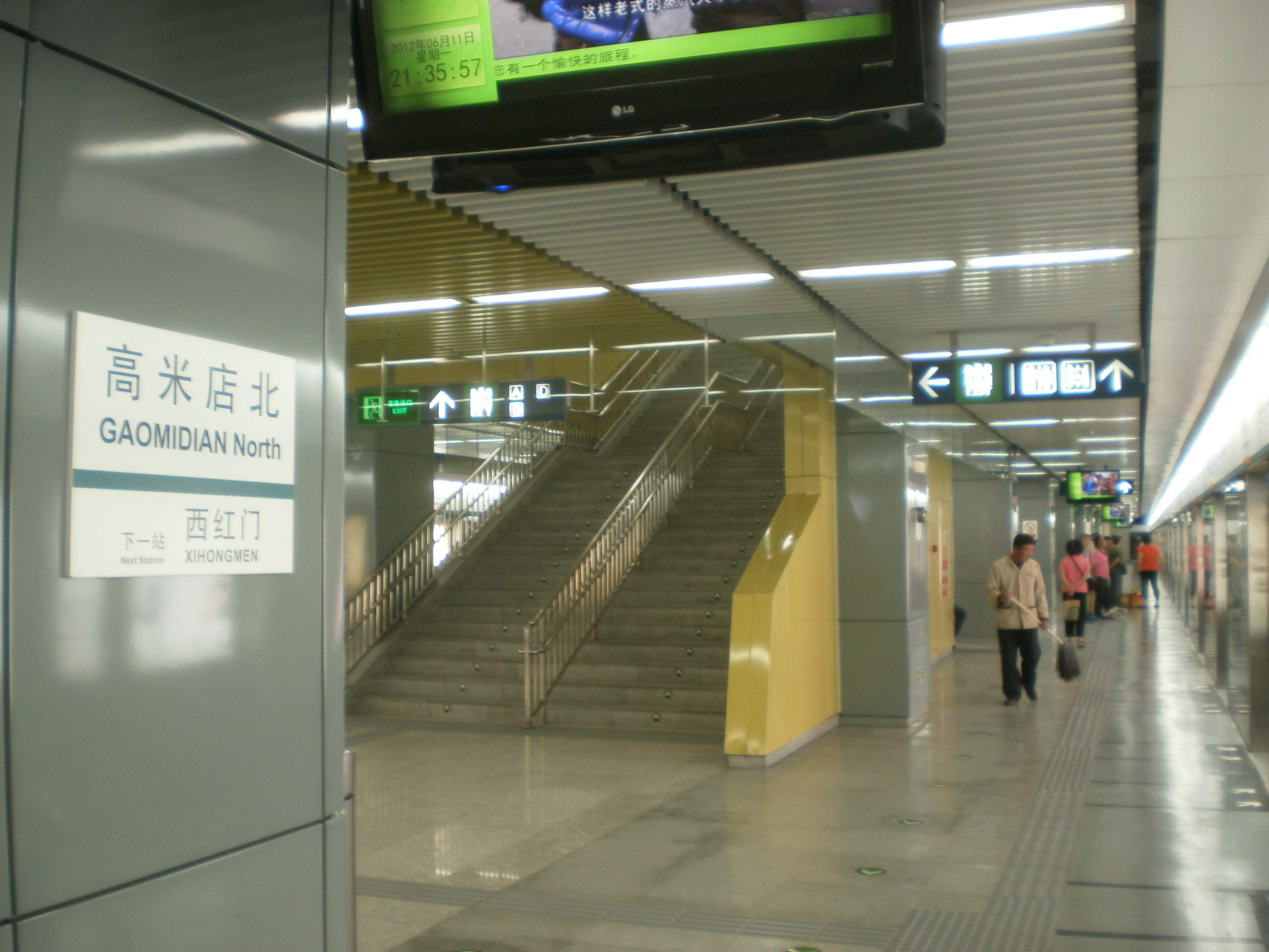 Beijing Subway, Daxing Line, Gaomidian North